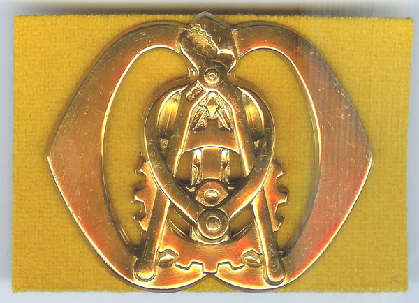 Dutch cap badge from the electrical and mechanical engineers